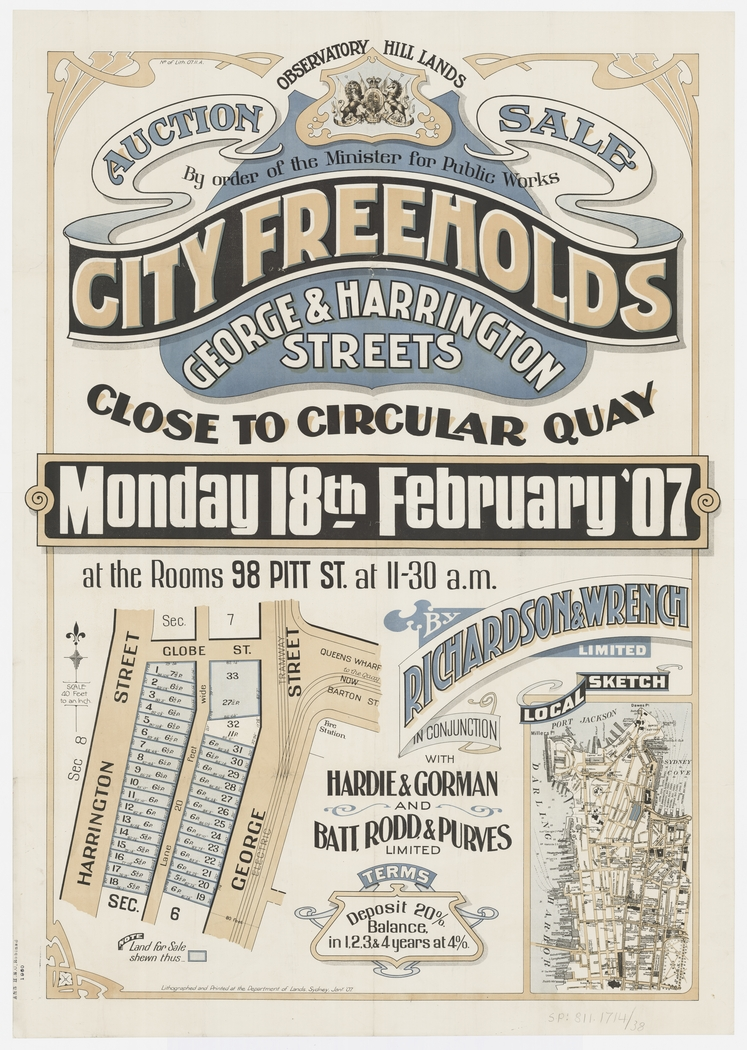 City Freeholds, George and Harrington Stretts, 1907, subdivision plan, printed by the Department of Lands, Sydney, State Library of New South Wales M Z/SP/811.1714